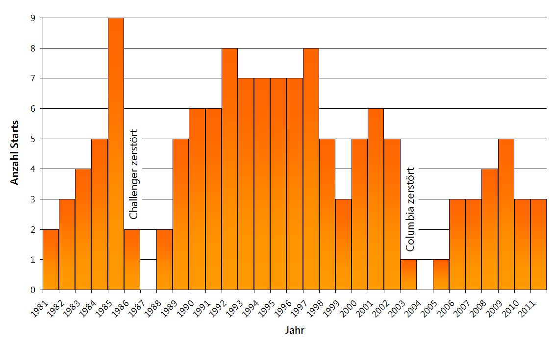 Space Shuttle starts per year